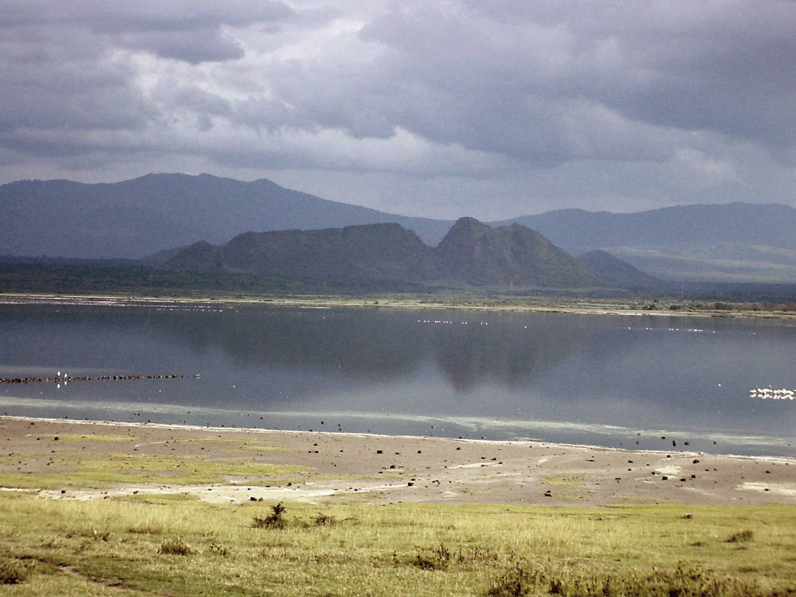 Lake Elmeneita, Kenya